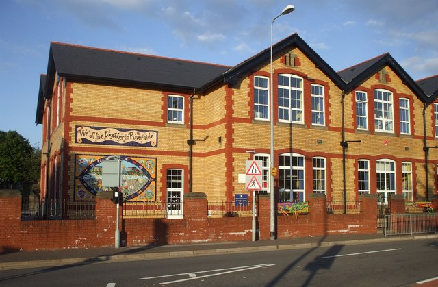 Kitchener Rd School, Riverside, Cardiff The slogan above the mural reads "We all live together in Riverside"